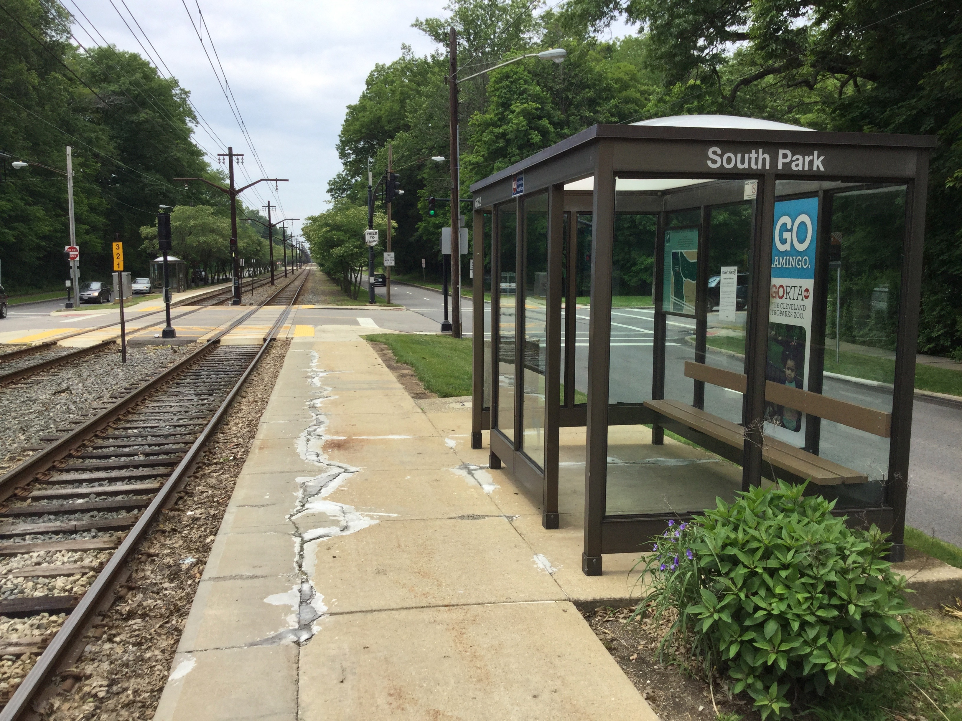 RTA station